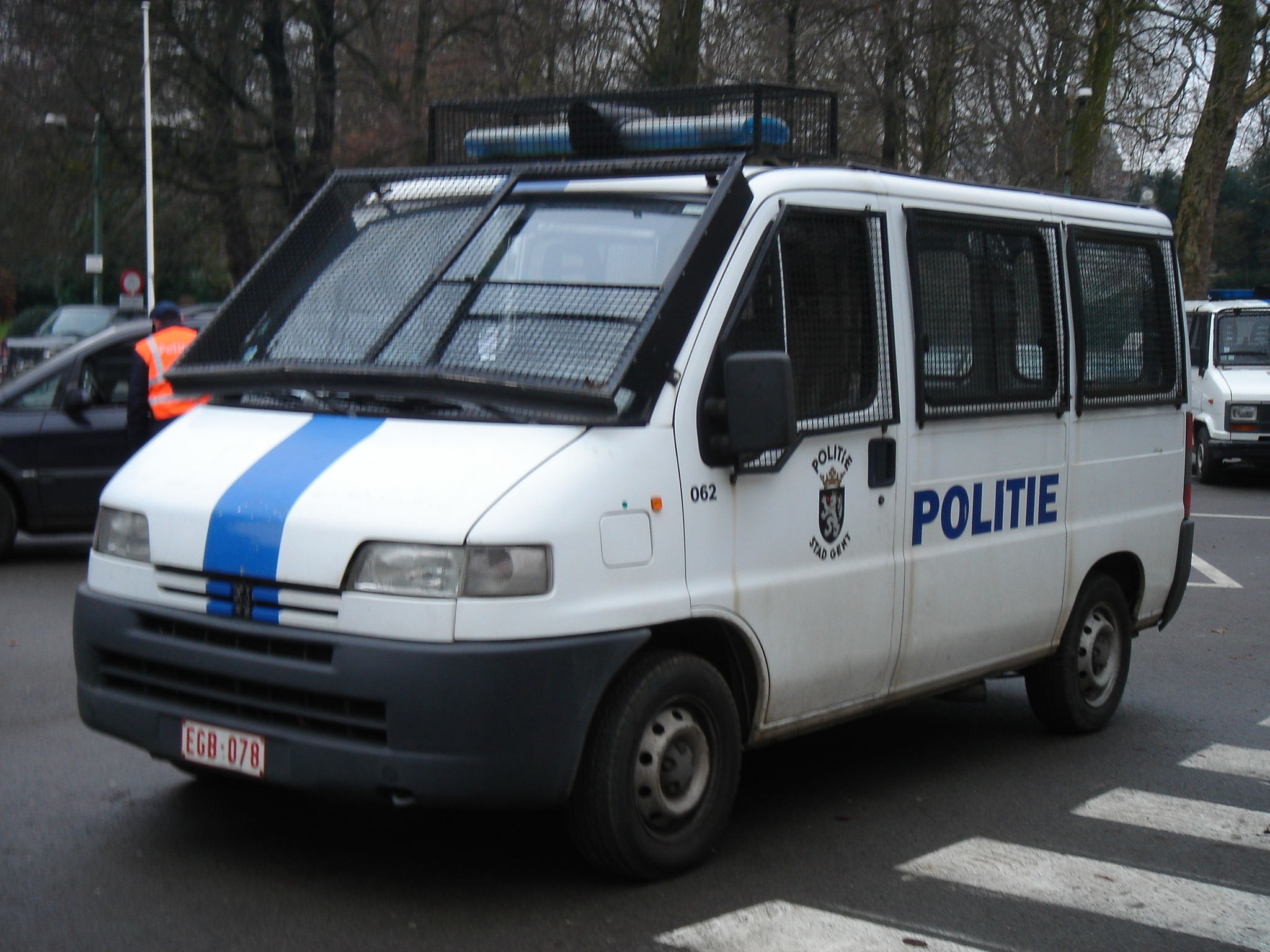 Police van in Ghent.